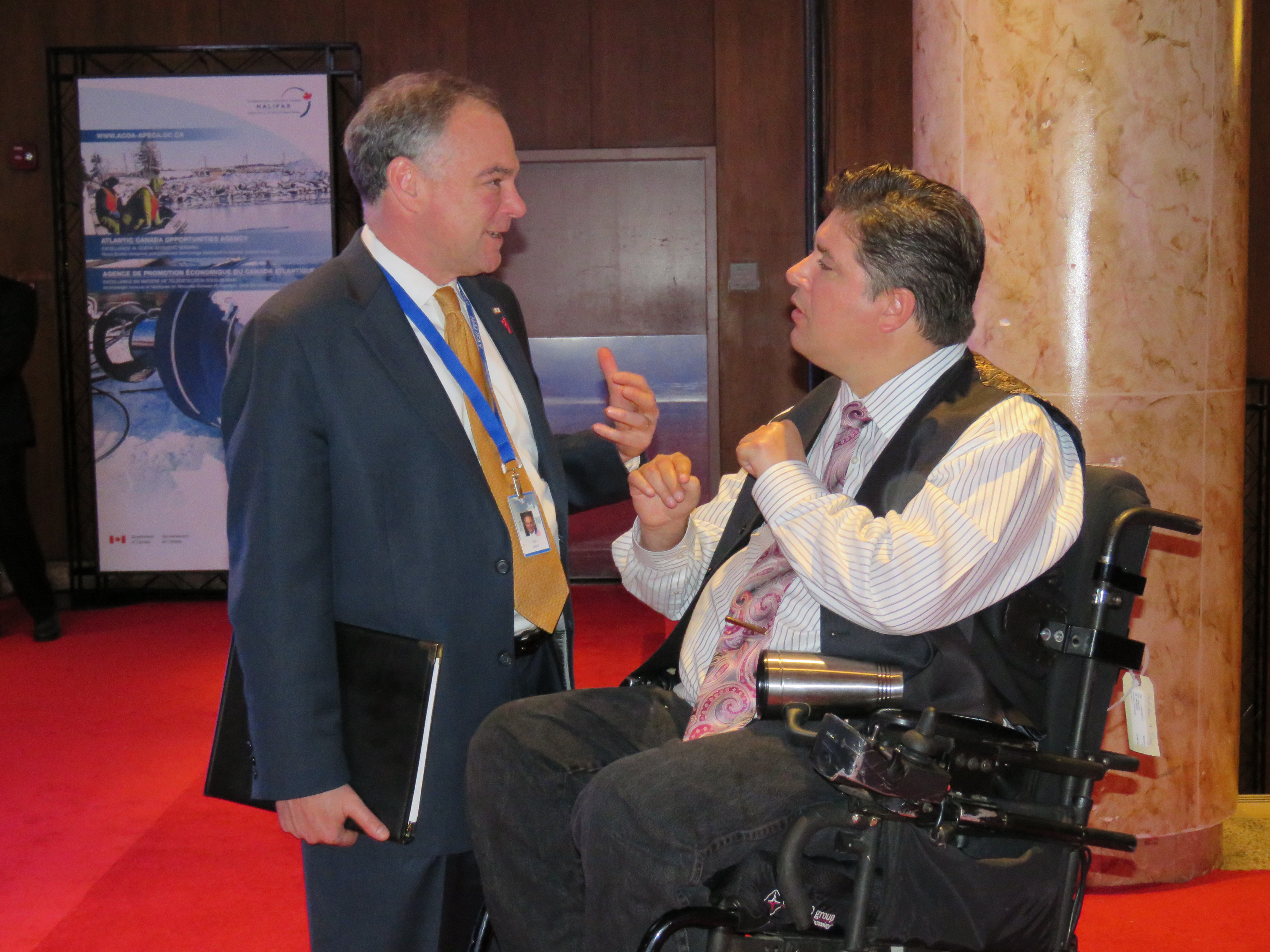 Senator Tim Kaine chats with Canada's new Minister of Veterans Affairs and Associate Minister of National Defence, Kent Hehr.